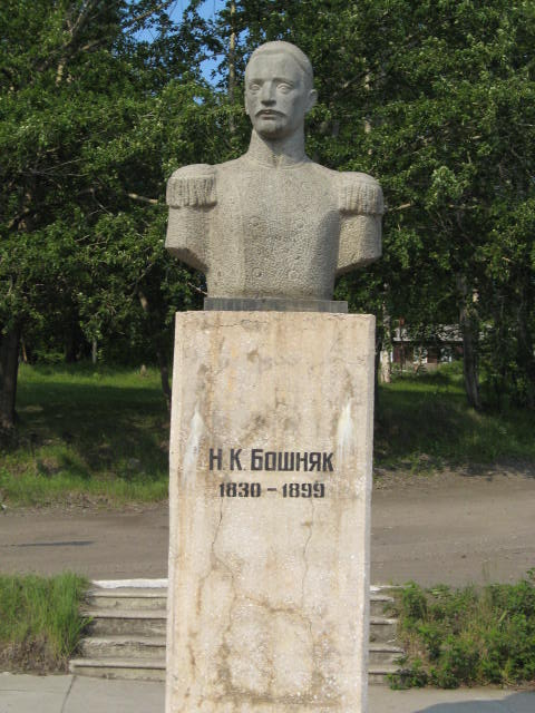 The Sity of Sovetskaya Gavan. Monument of Nikolay Boshnyak - is the founder of Sovetskaya Gavan.